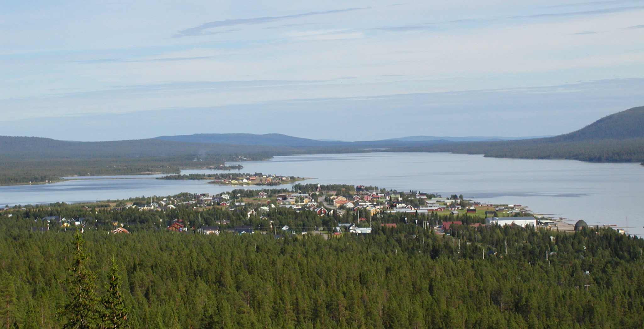 Jukkasjärvi village, Sweden. 2002-07-31